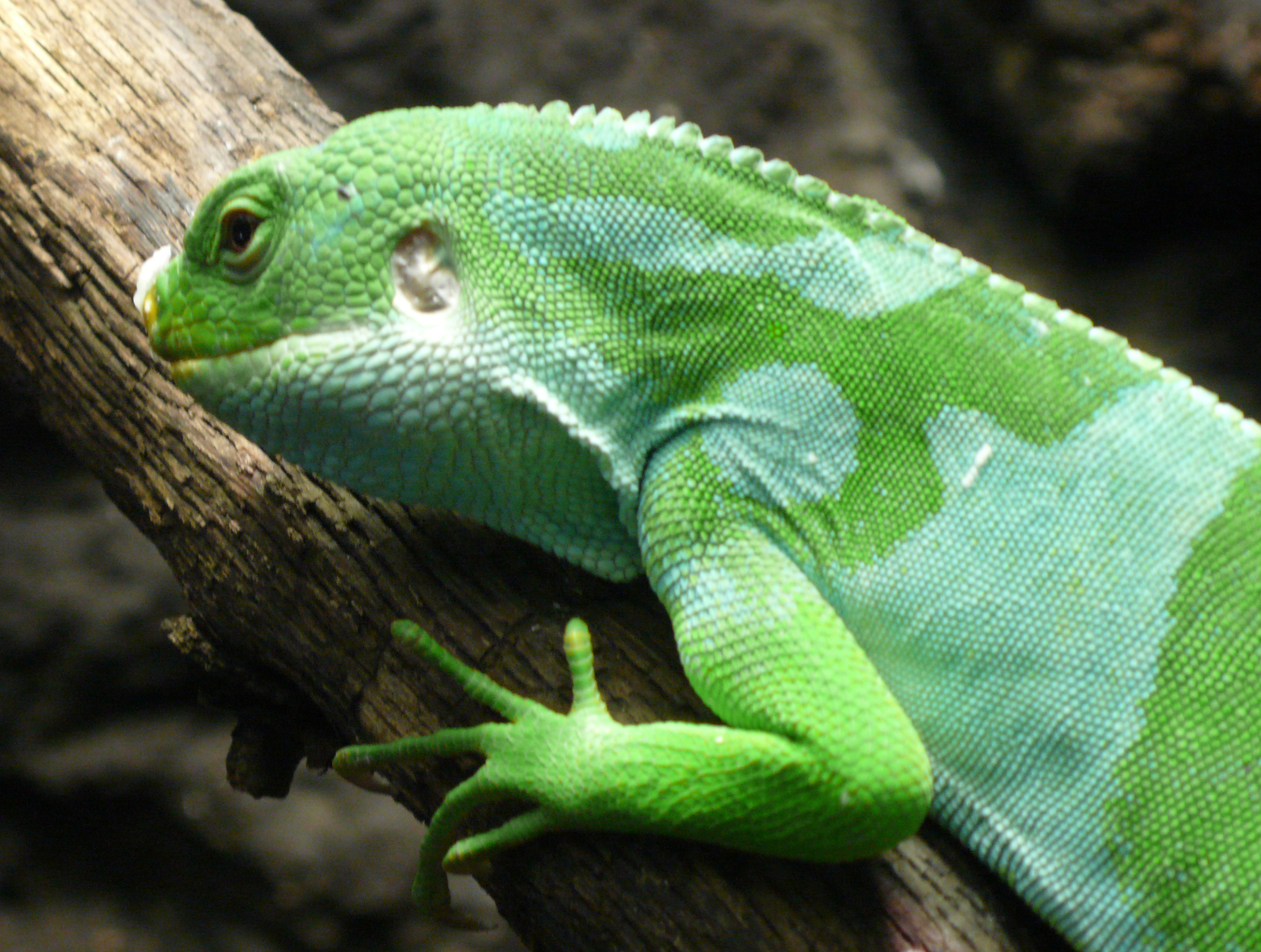 Fiji Banded Iguana Brachylophus fasciatus, St Louis zoo